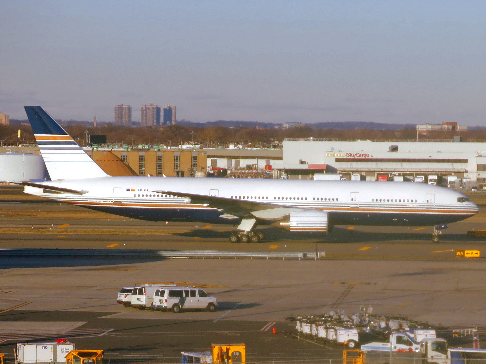 Operating Flight LY7 from Ben Gurion Airport, a Privilege Style Boeing 777-200(ER) taxis to Terminal 4 after arriving at John F. Kennedy International Airport.